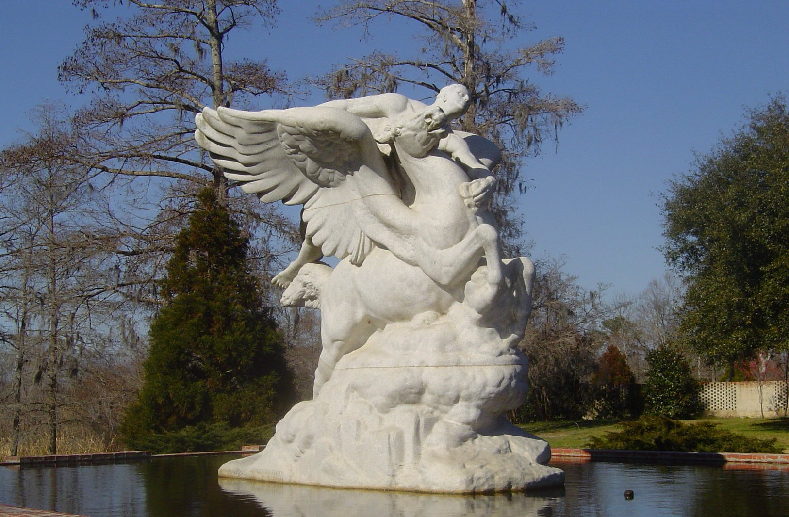 "Pegasus" by Laura Gardin Fraser, 1954. Brookgreen Gardens - sculpture garden